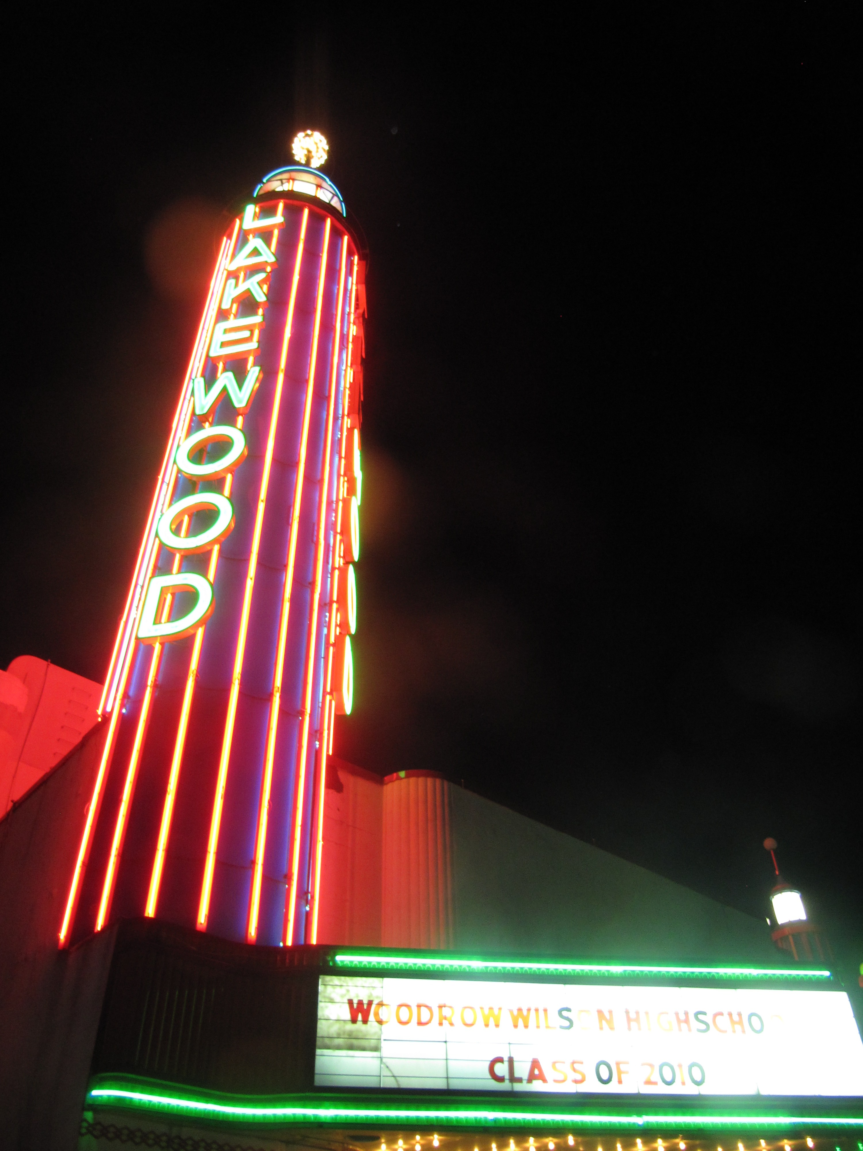 Lakewood Theater at the heart of Lakewood Shopping Center LaVista at Abrams Parkway Dallas, Texas 75214 opened in 1938 with "Love Finds Andy Hardy".